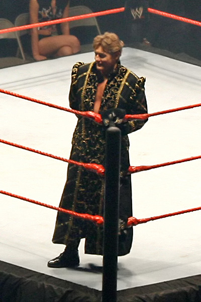 William Regal (Darren Matthews) during his ring entrance. Taken during the WWE Raw - Survivor Series Tour, at Rod Laver Arena, Melbourne Park, Melbourne, Australia. Regal wrestled Cody Rhodes on the night; the match was won by Rhodes pinning Regal following a DDT.